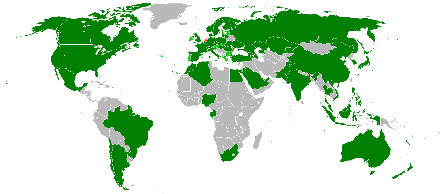 Participant nations of Nuclear Security Summit held in The Hague, Netherlands, March 24-25, 2014. Host nation (Netherlands) Participating nations European Union members represented by the President of the European Council and the President of the European Commission only (as observer)